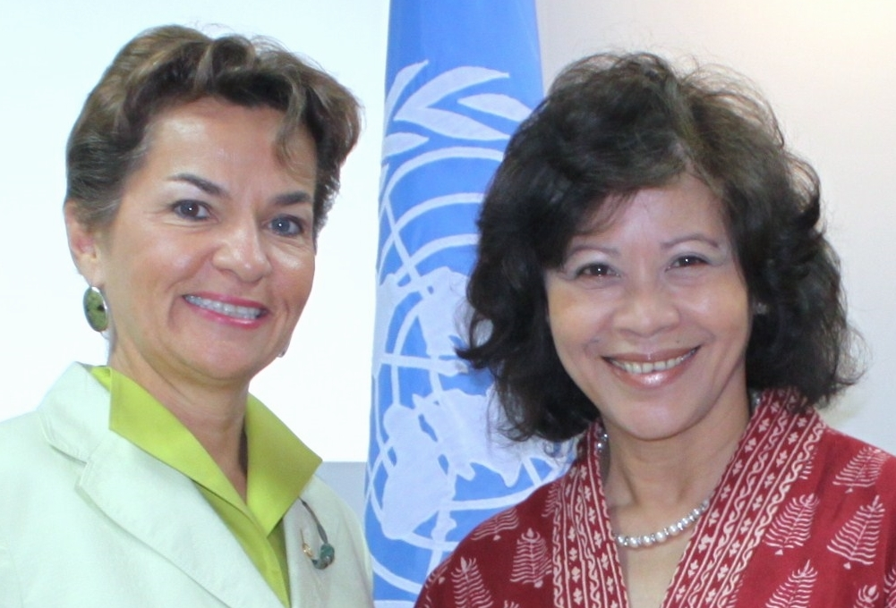 Christiana Figueres (left) - Executive Secretary UNFCCC, and Noeleen Heyzer - ES of Economic and Social Commission for Asia and the Pacific (ESCAP) at the Bangkok Climate Change Talks, August 2012